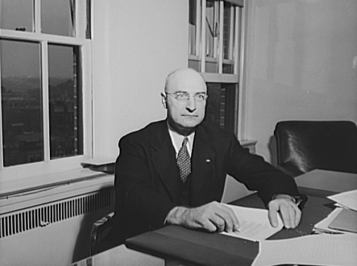 T. Semmes Walmsley, Deputy Director, Office of Civilian Defense, at his office desk